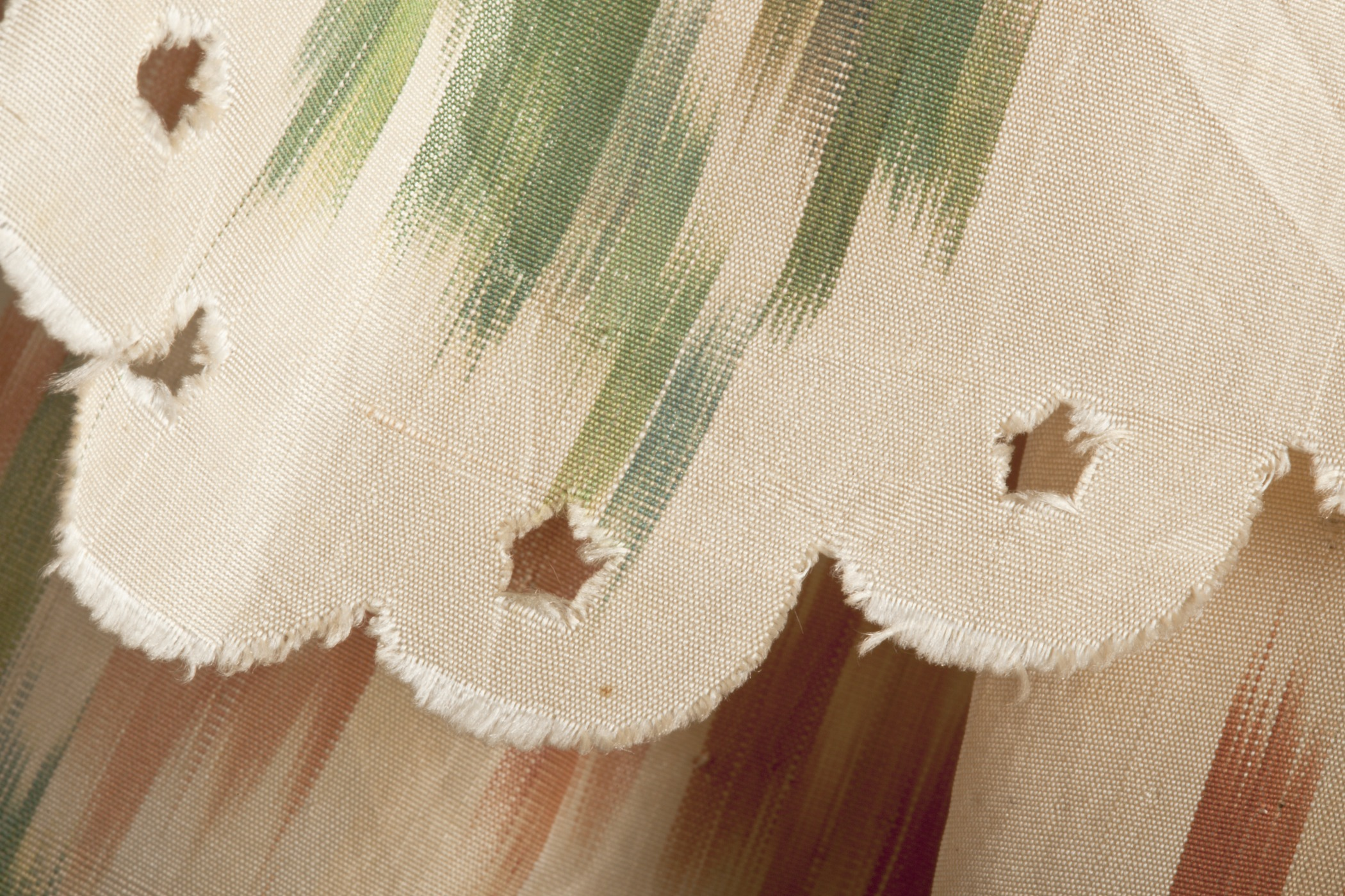 France, 1760s Costumes; principal attire (entire body) Chiné silk taffeta Gift of Mrs. Frederick Kingston (M.60.36.1) Costume and Textiles